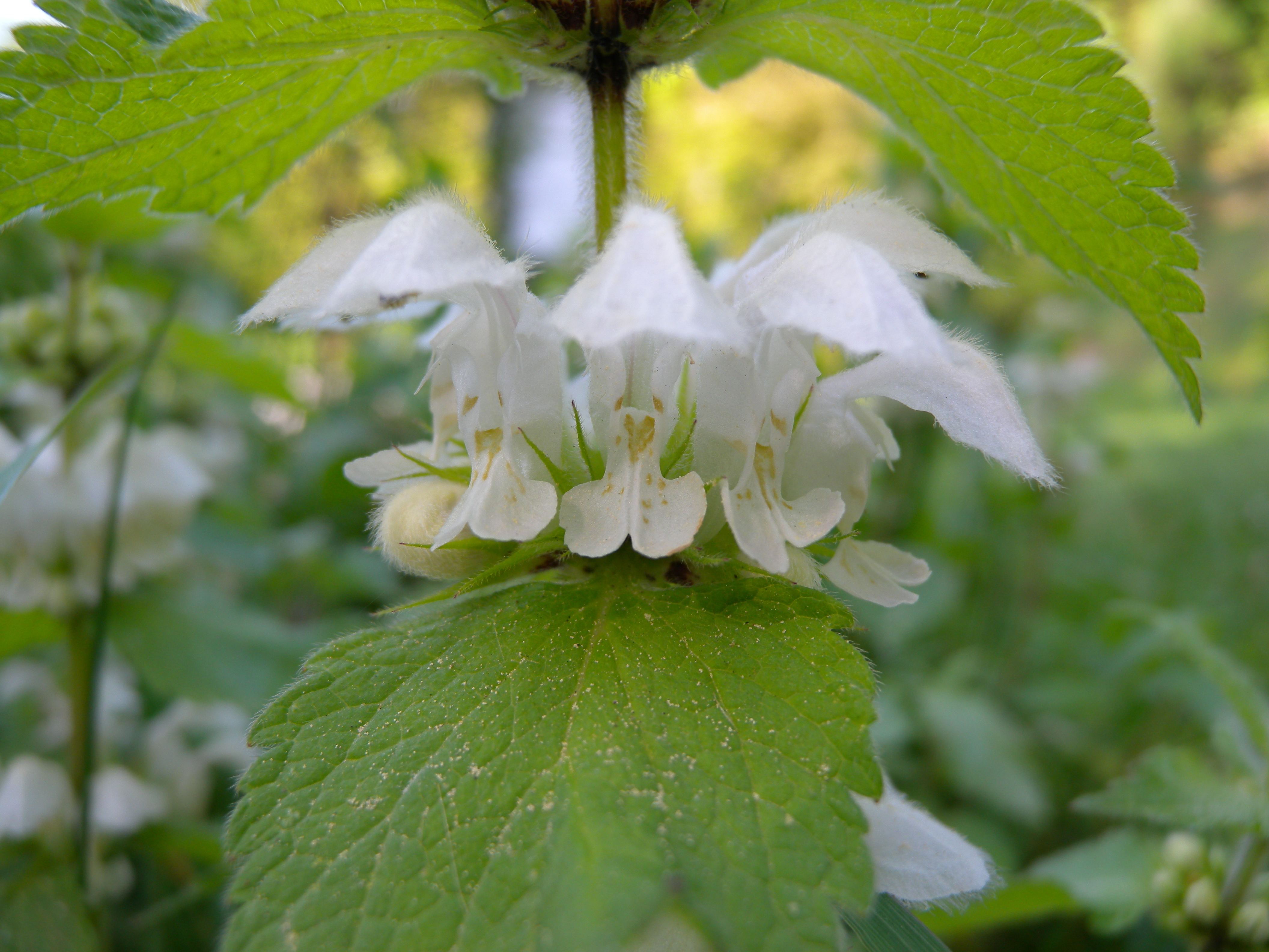 Lamium album (Lamiaceae), Botanical Garden Bern, Switzerland